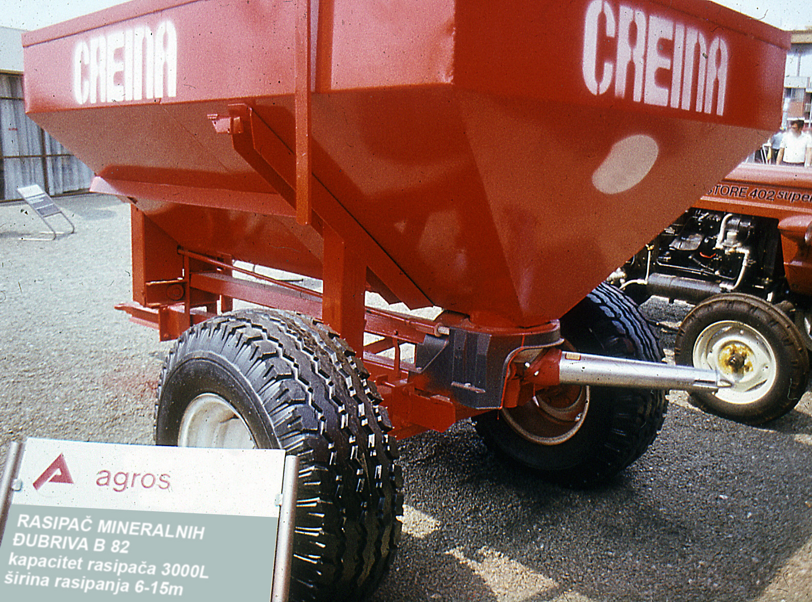 Broadcast spreader B82